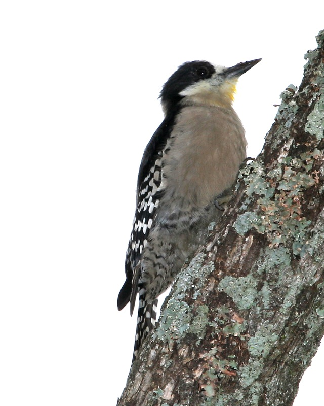 White-fronted Woodpecker (Melanerpes cactorum) at Entre Rios, Argentina. Carpintero del Cardon